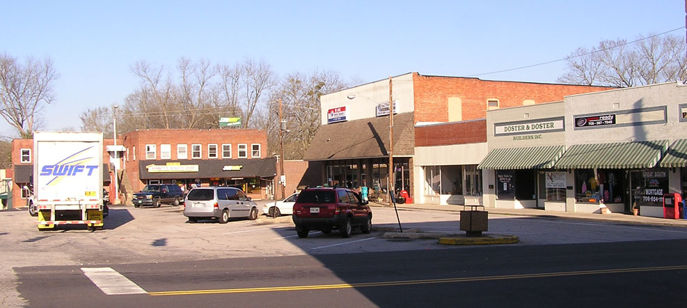 Photograph number four of a four photo sequence showing the downtown square of Jefferson. Photo taken by Richard Chambers, afternoon of March 16, 2007. Image resized by 50% and slightly cropped.